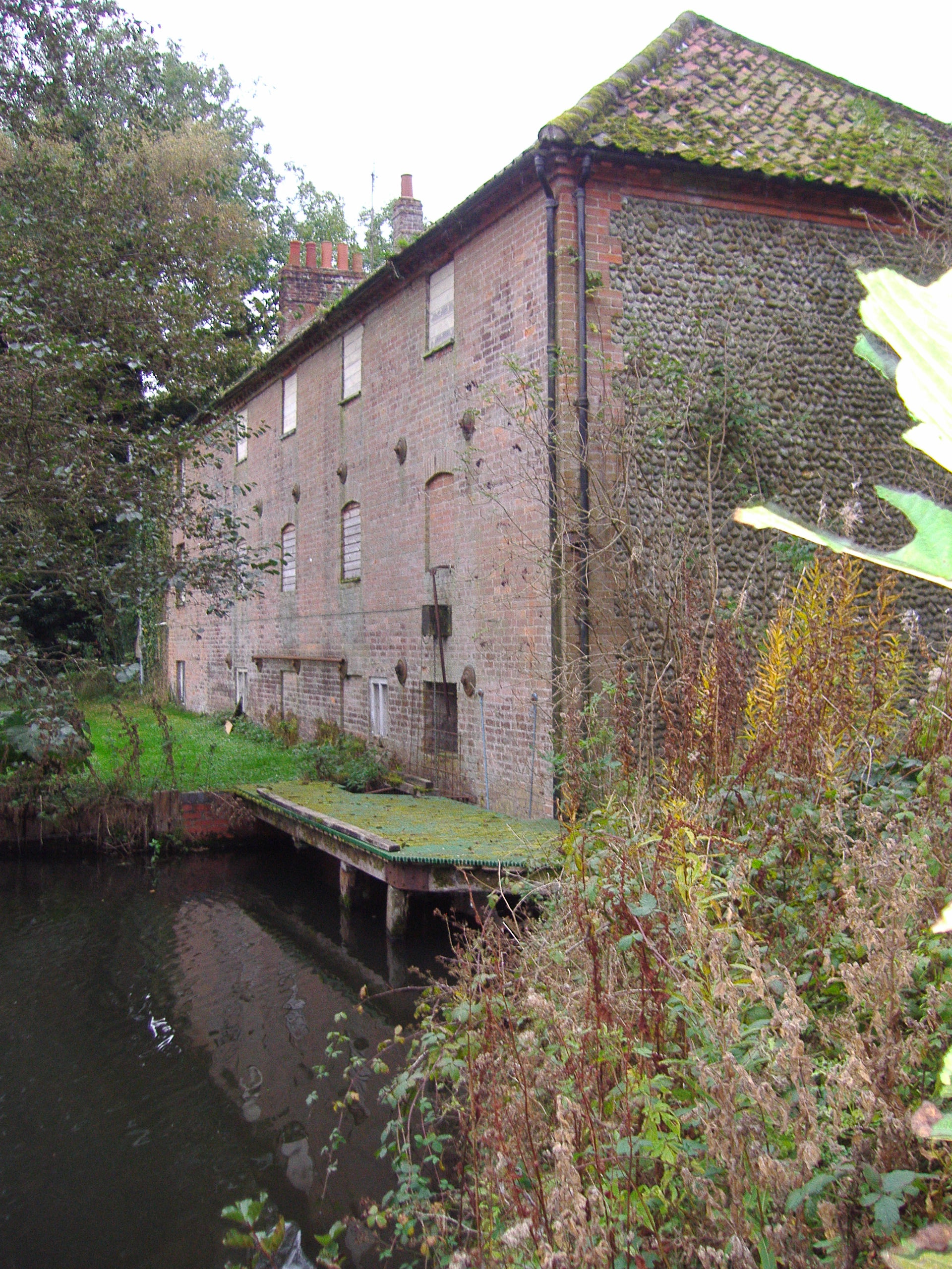 A Digital Photograph of Hempstead watermill(rear) taken on the 25th October 2007 by stavros1